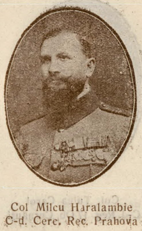 Romanian Generalul Haralambie Milcu - regiment commander during WWIRomână: Generalul Haralambie Milcu - comandantul Regimentului 38 Infanterie în Primul Război Mondial